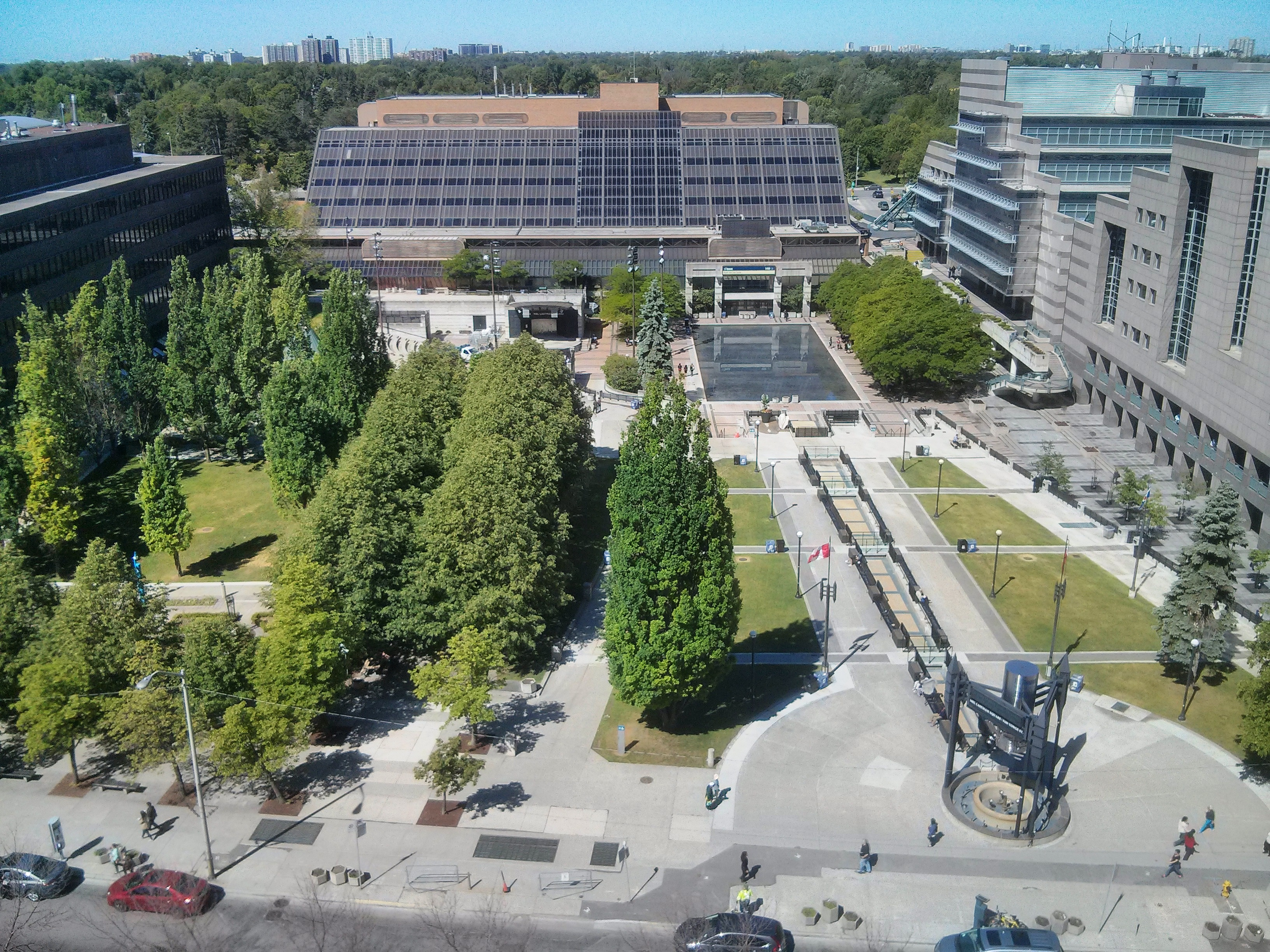 Mel Lastman Square, as viewed from a building across Yonge Street. The North York Civic Centre can be seen in the background. Part of the Toronto District School Board Education Centre is shown here on the left, and part of the North York Central Library and the North York City Centre on the right.